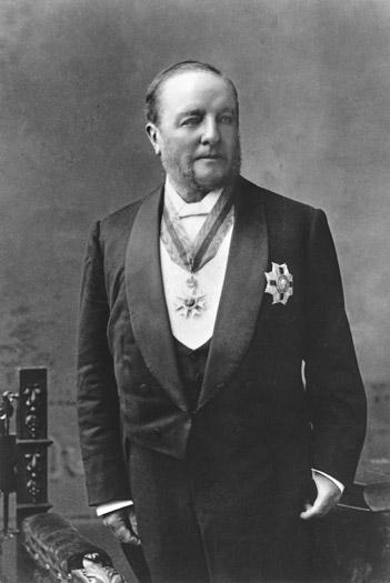 British paleontologist Frederick McCoy (1817-1899)